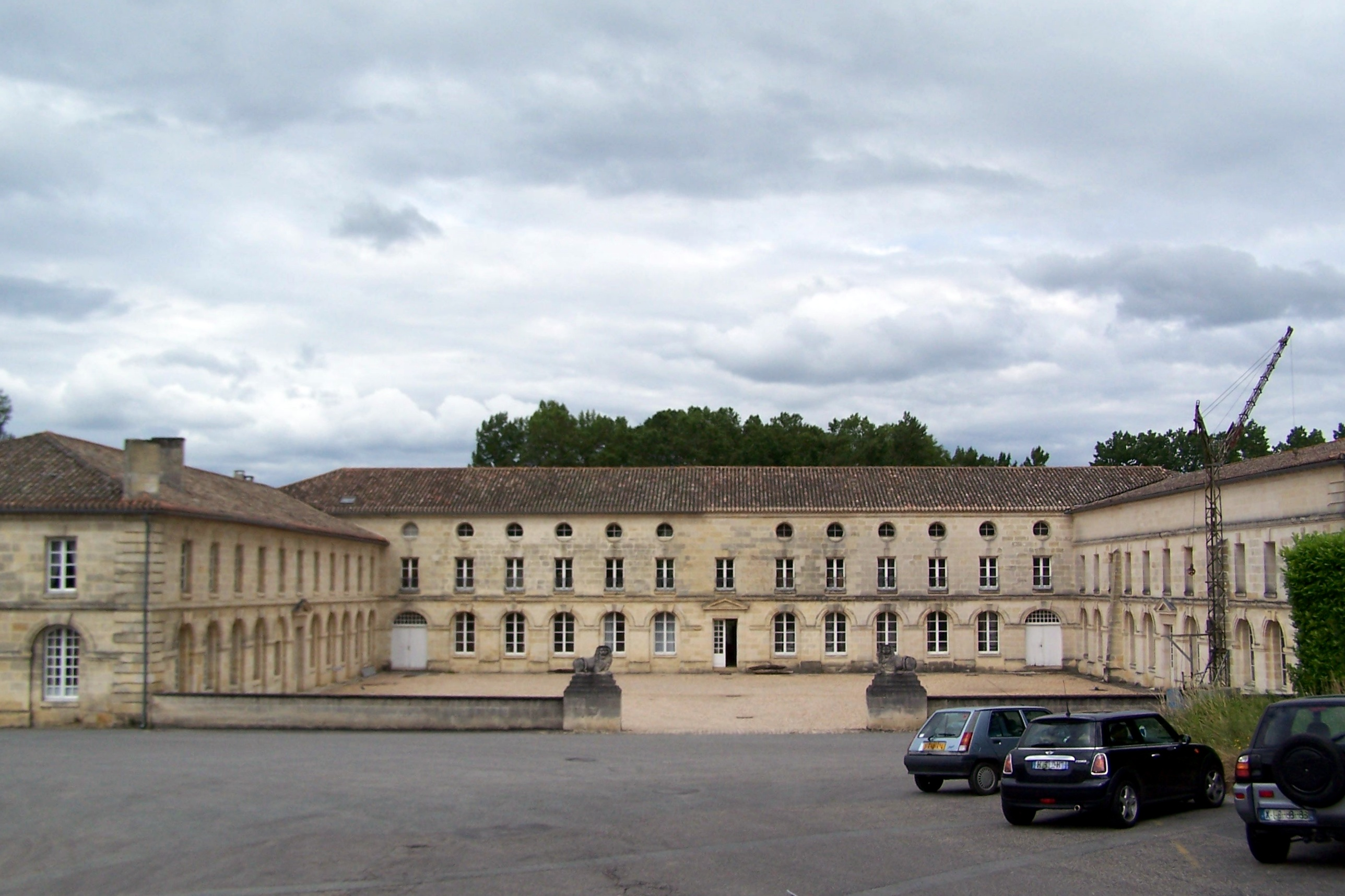 Factory of Abzac (Gironde, France)